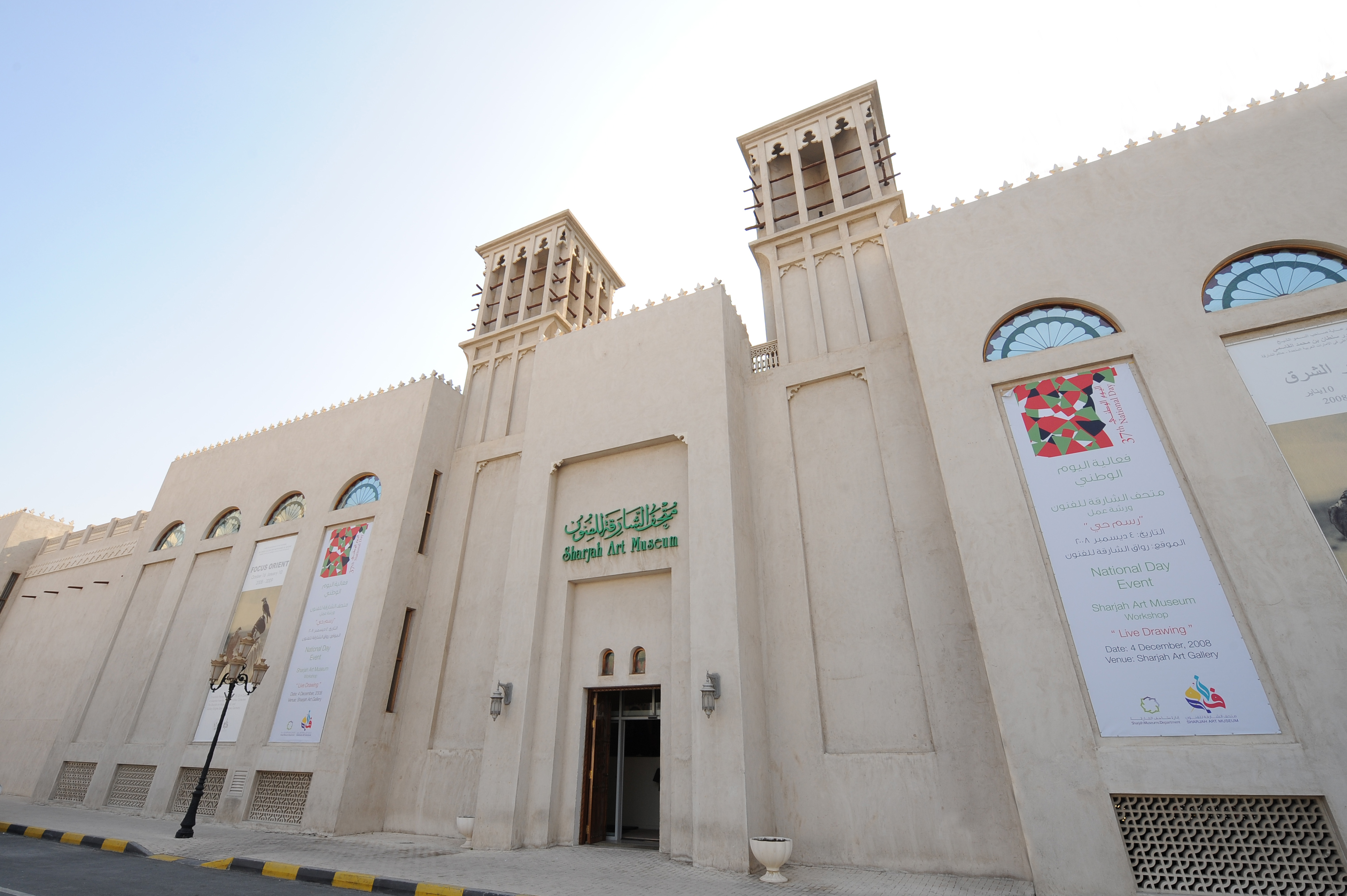 ©Sharjah Museums Authority